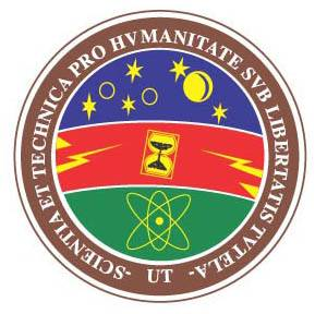 official seal of the Technological University of Pereira